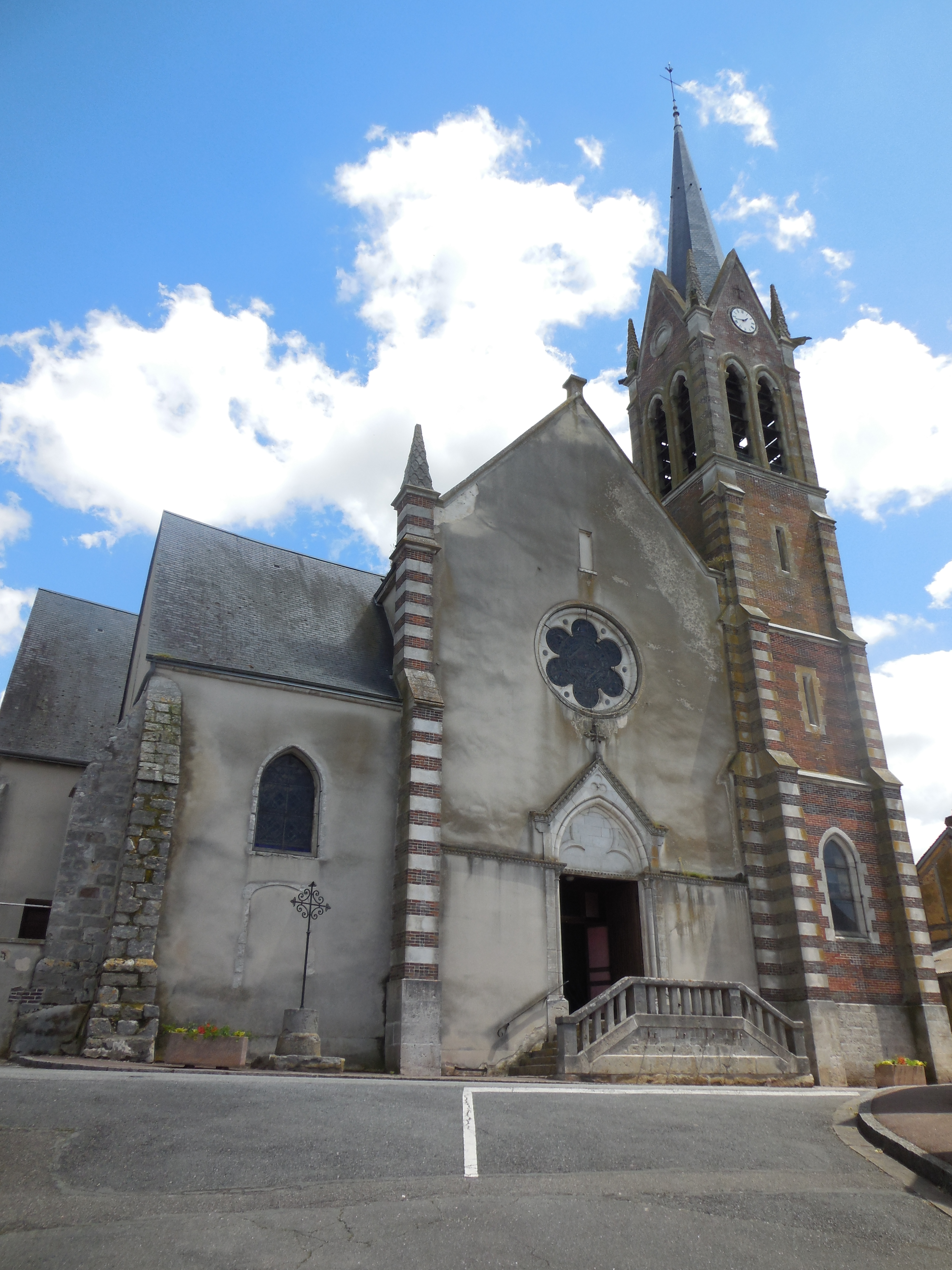 Eglise de Douchy-Montcorbon (quartier de Douchy)